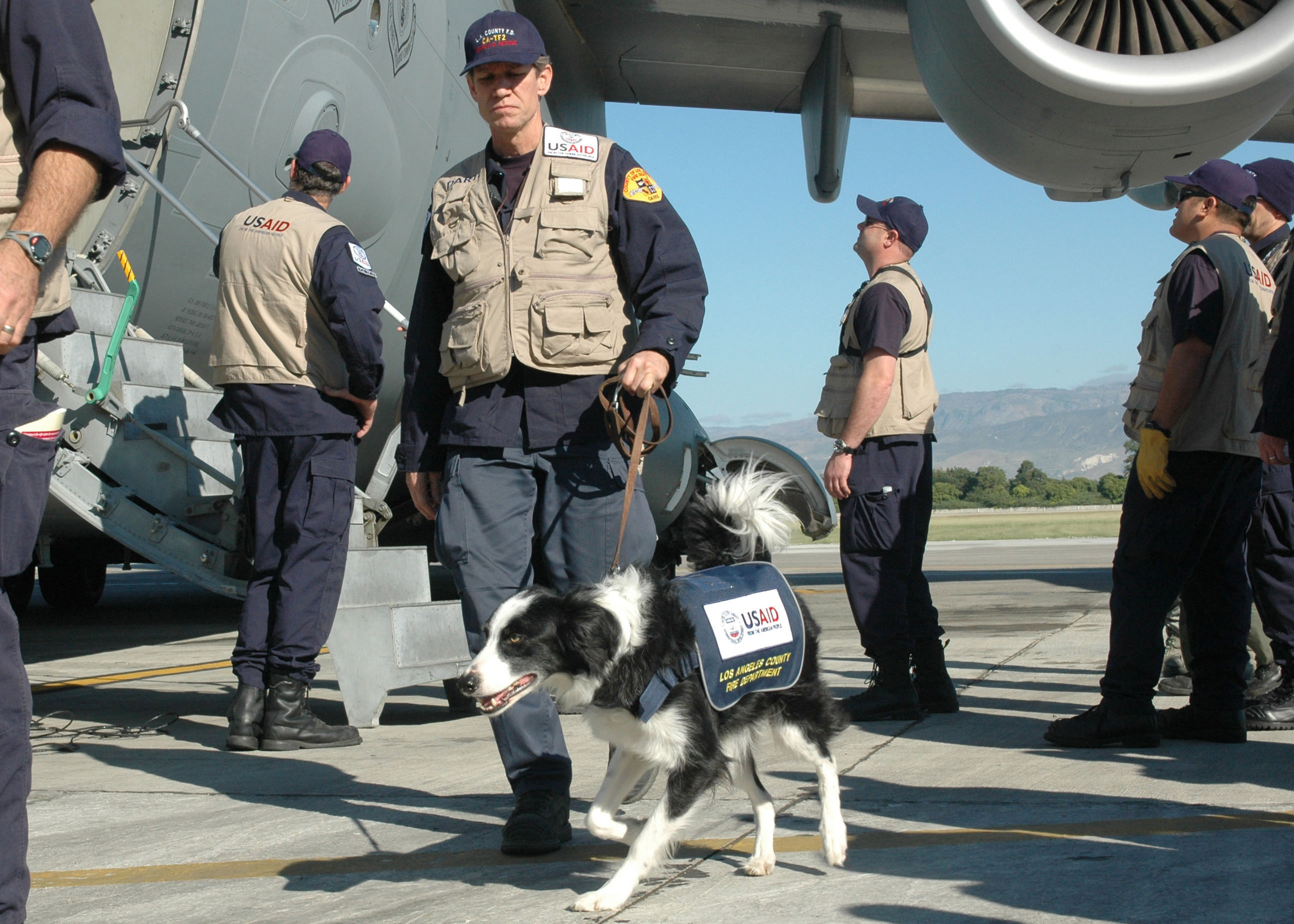 Ron Wickbacher along with his dog, Dawson, prepare to load onto a C-17 Globemaster III on their way to Haiti Jan. 14, 2010, at March Air Reserve Base, Calif. Mr. Wickbacher is a canine search specialist from California Task Force 2, and Dawson is a live-scent dog trained for humanitarian search and rescue. (U.S. Air Force photo/2nd Lt. Holly Hess)